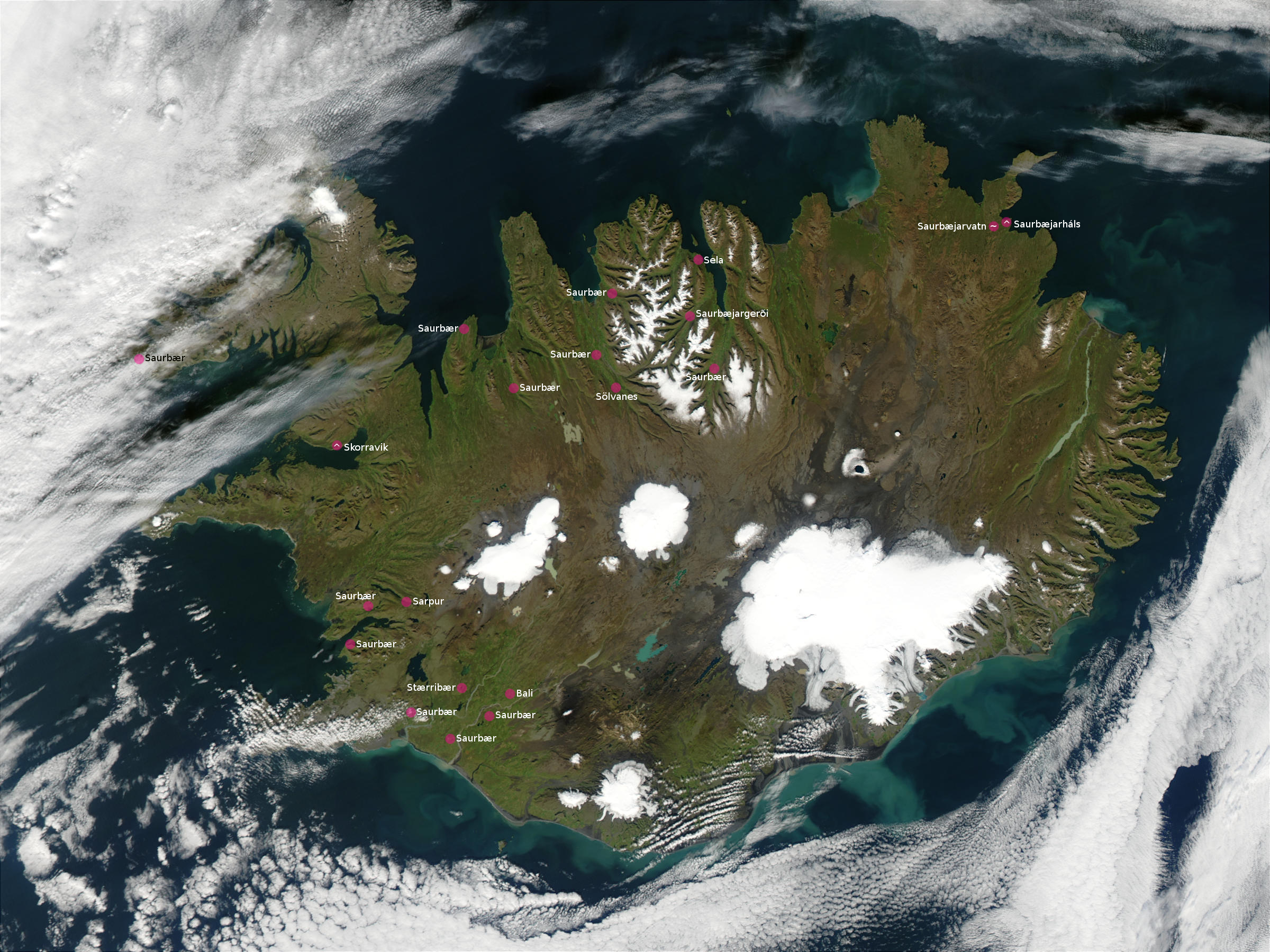 Selected current toponyms